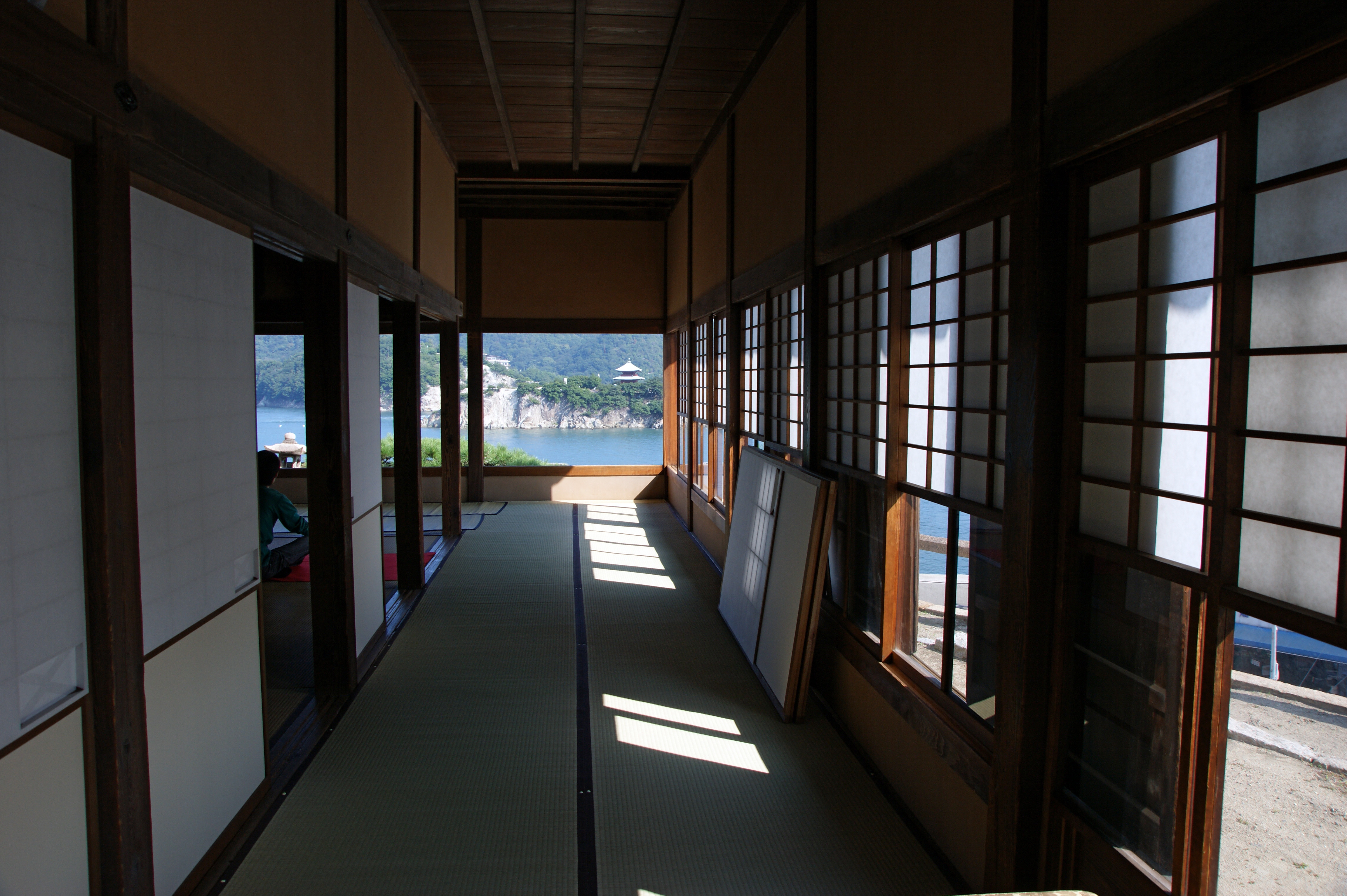 Fukuzenji, Fukuyama, Hiroshima Prefecture, Japan